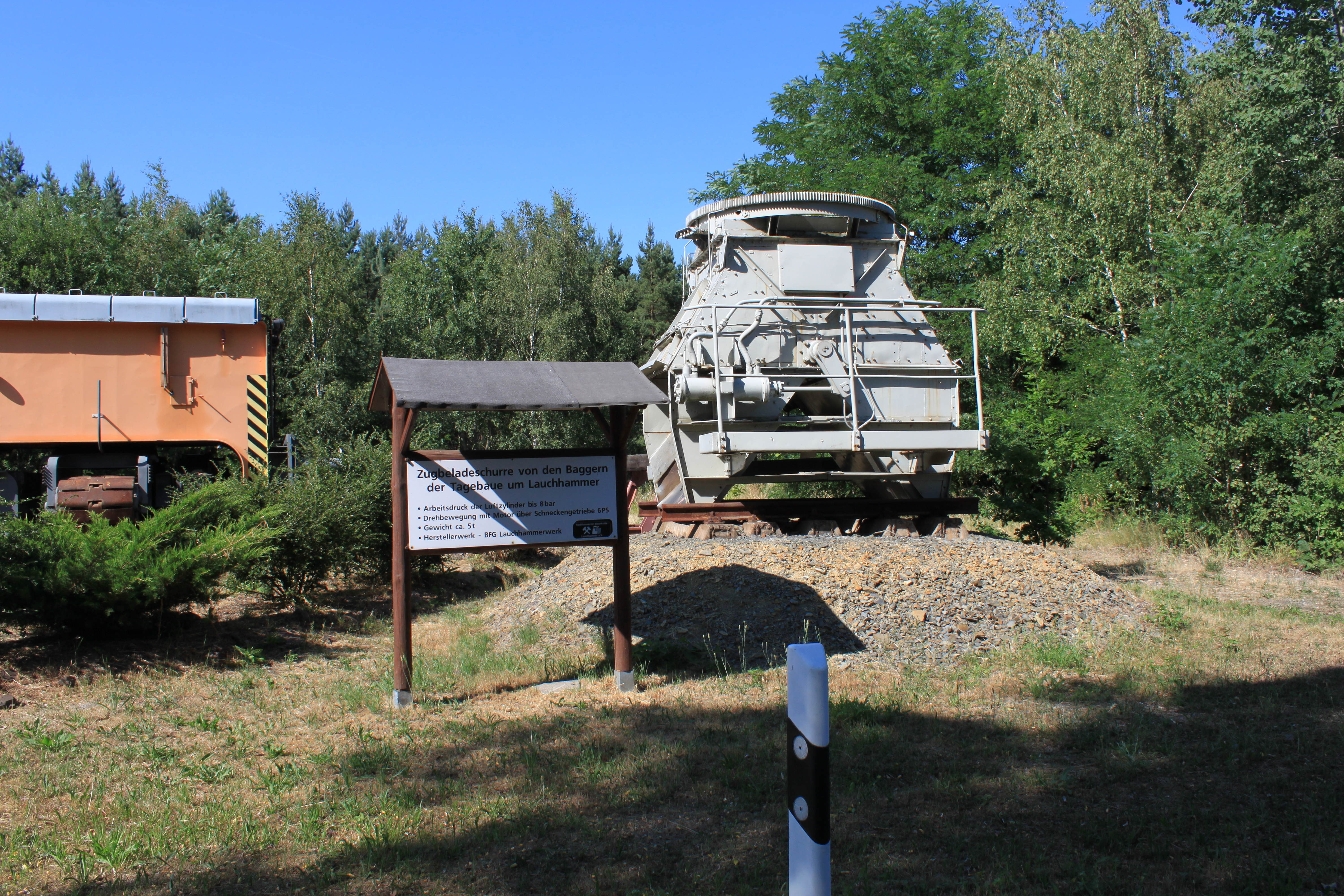 Zugbeladeschurre von den Baggern der Tagebaue um Lauchhammer